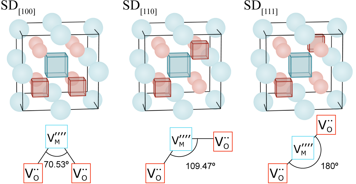 Bound Schottky defects in CeO2, or any other compound with fluorite structure.